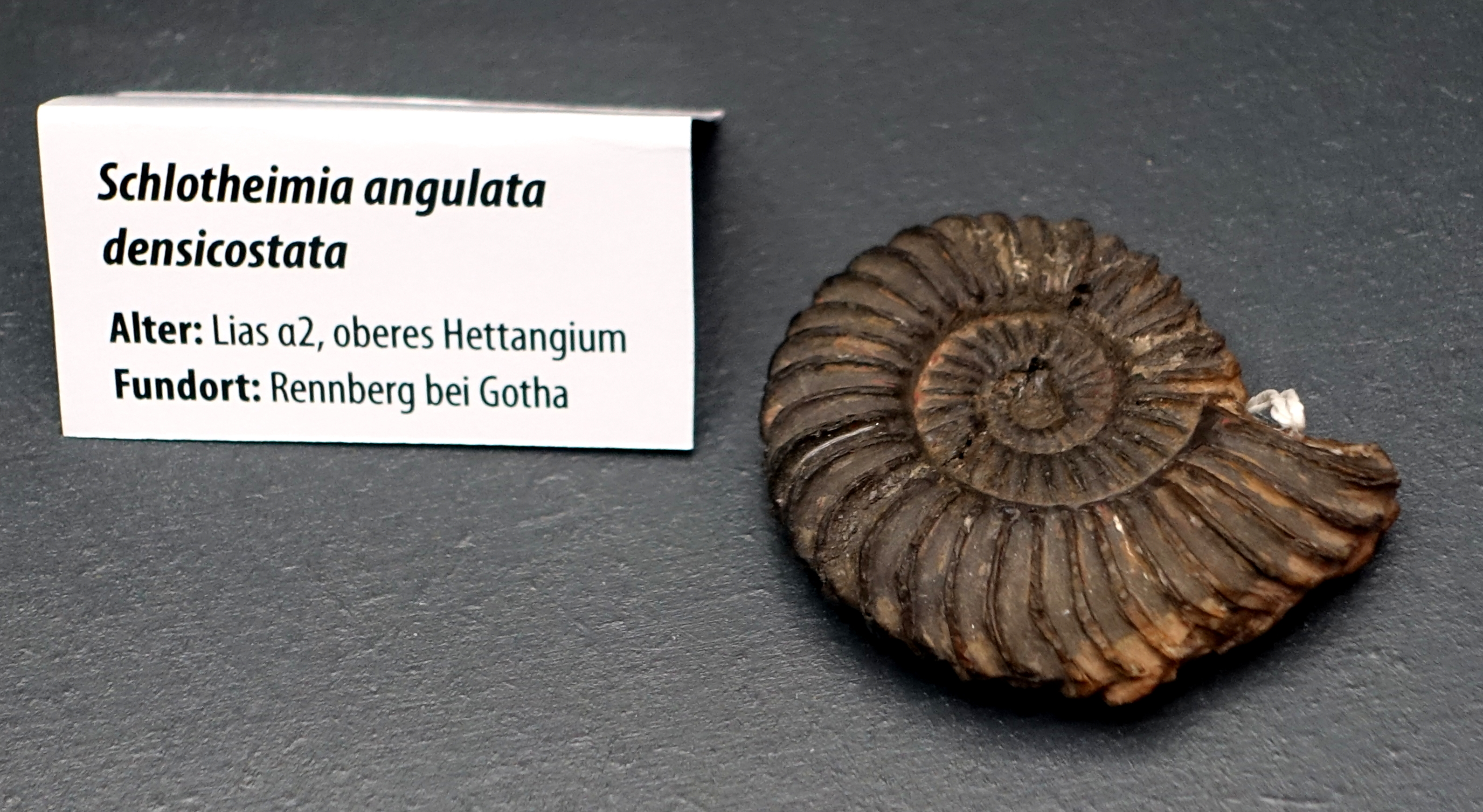 Exhibit in the Naturhistorisches Museum, Braunschweig, Germany.